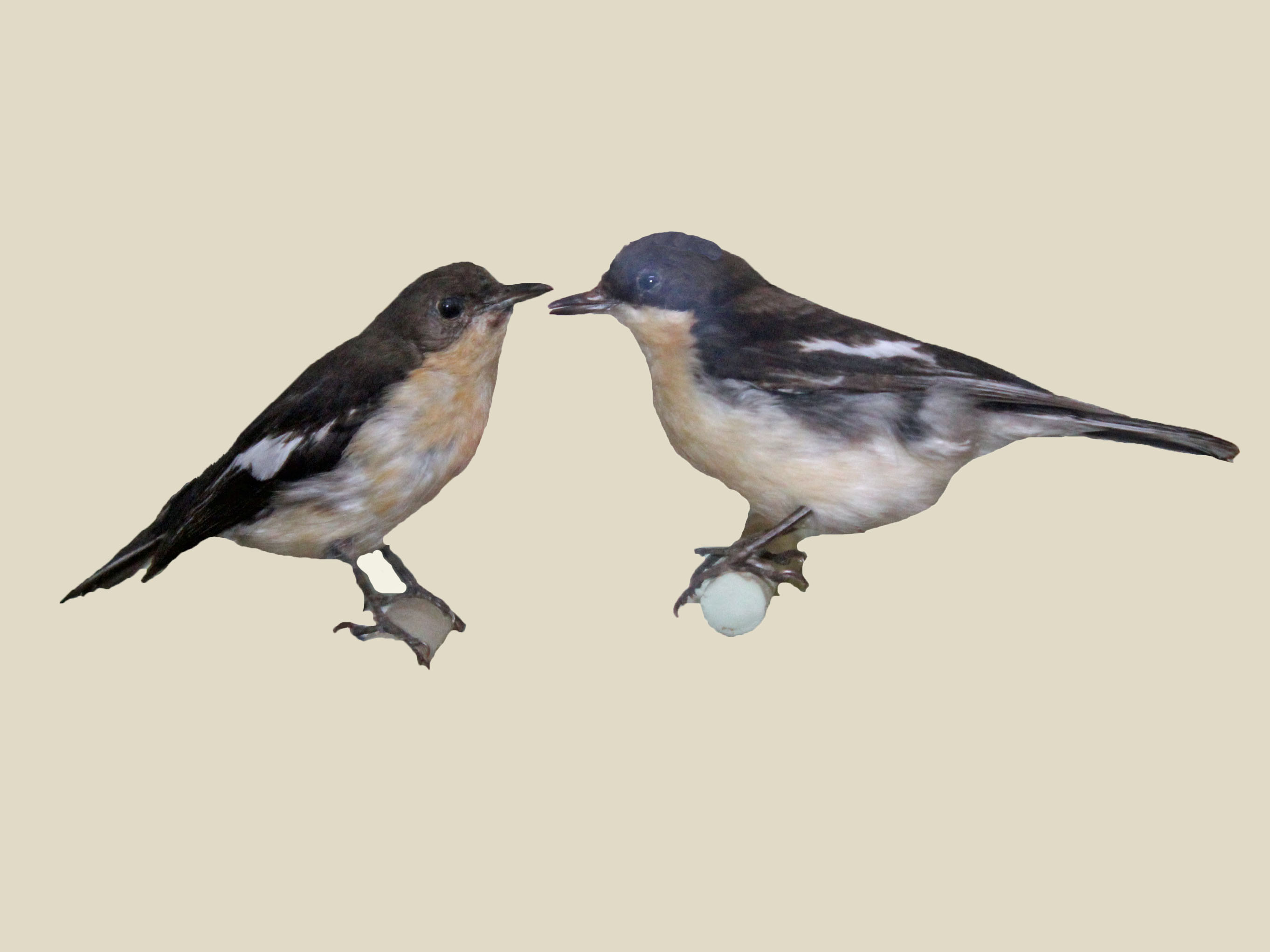 Southern Hyliota (Hyliota australis). Also known as Southern Yellow-belleid Flycatcher. Female on left, male on right has glare on head due to flash. Photograph of a specimen at Nairobi National Museum in Nairobi, Kenya.